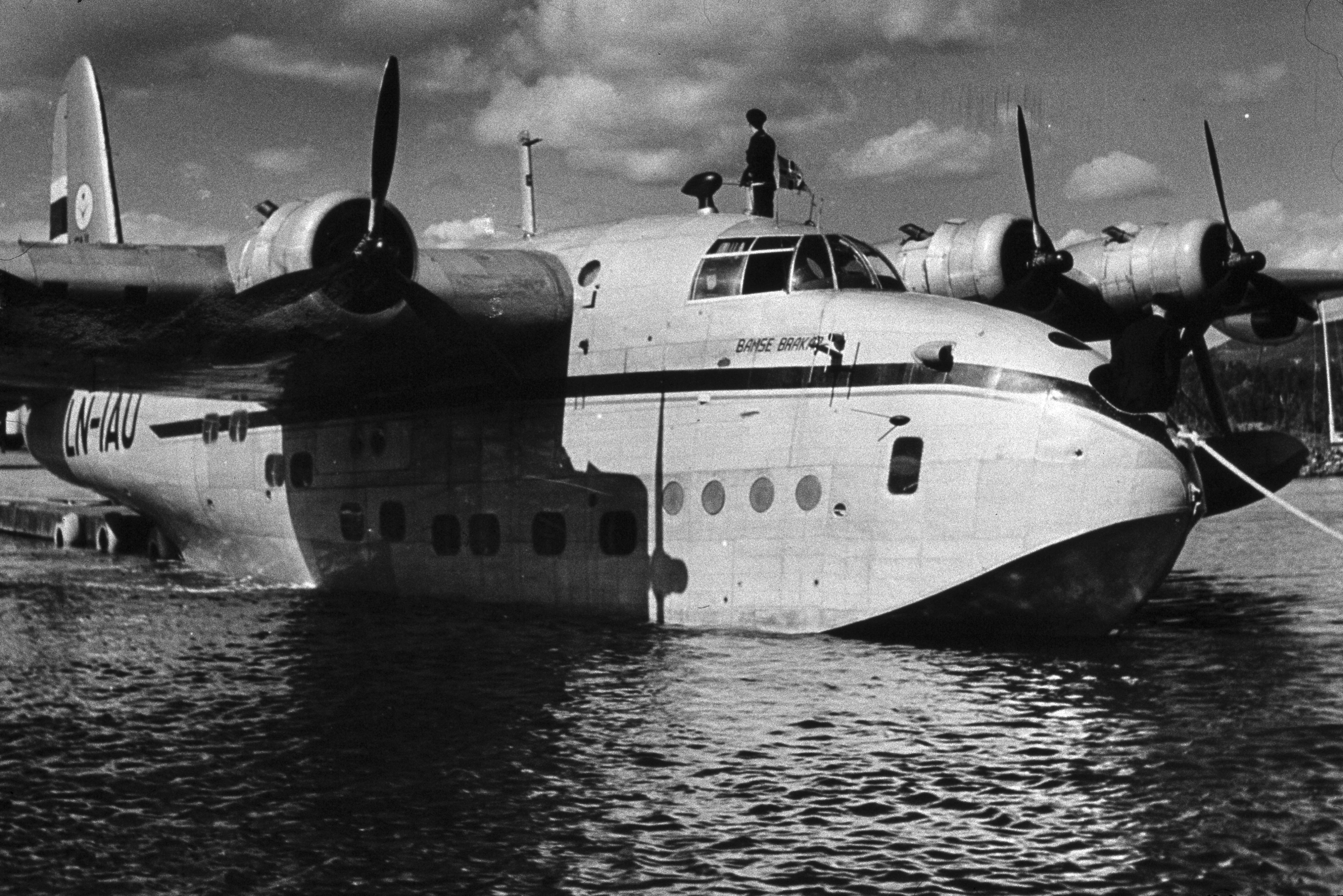 Short Sandringham "Bamse Brakar" (registration: LN-IAU) of Det Norske Luftfartselskap (DNL) on the water